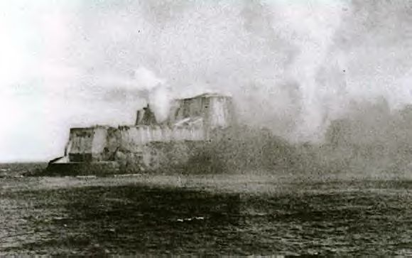 Bombardment of El Morro in 1898 by American Naval forces